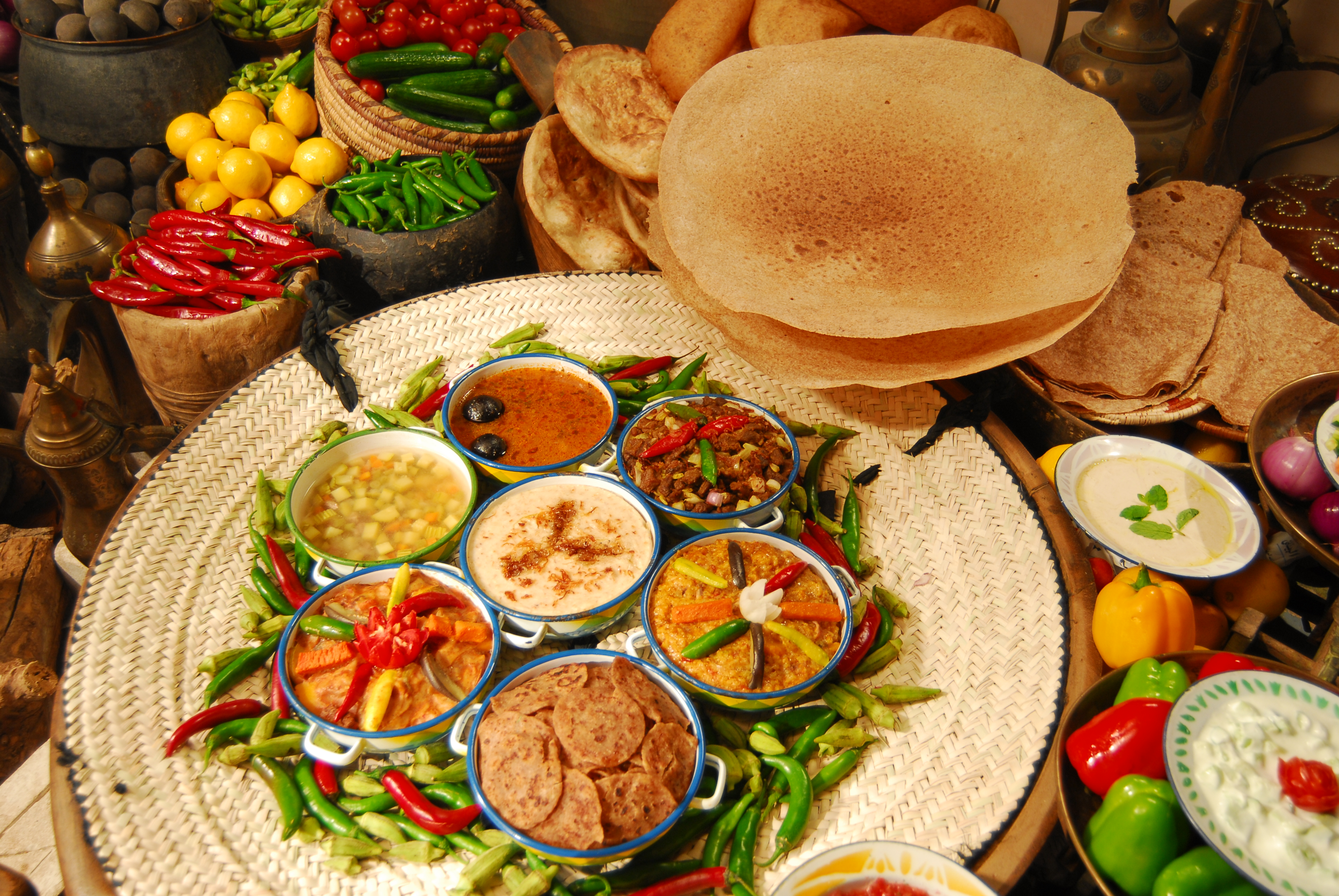 مأكولات منطقة الرياض